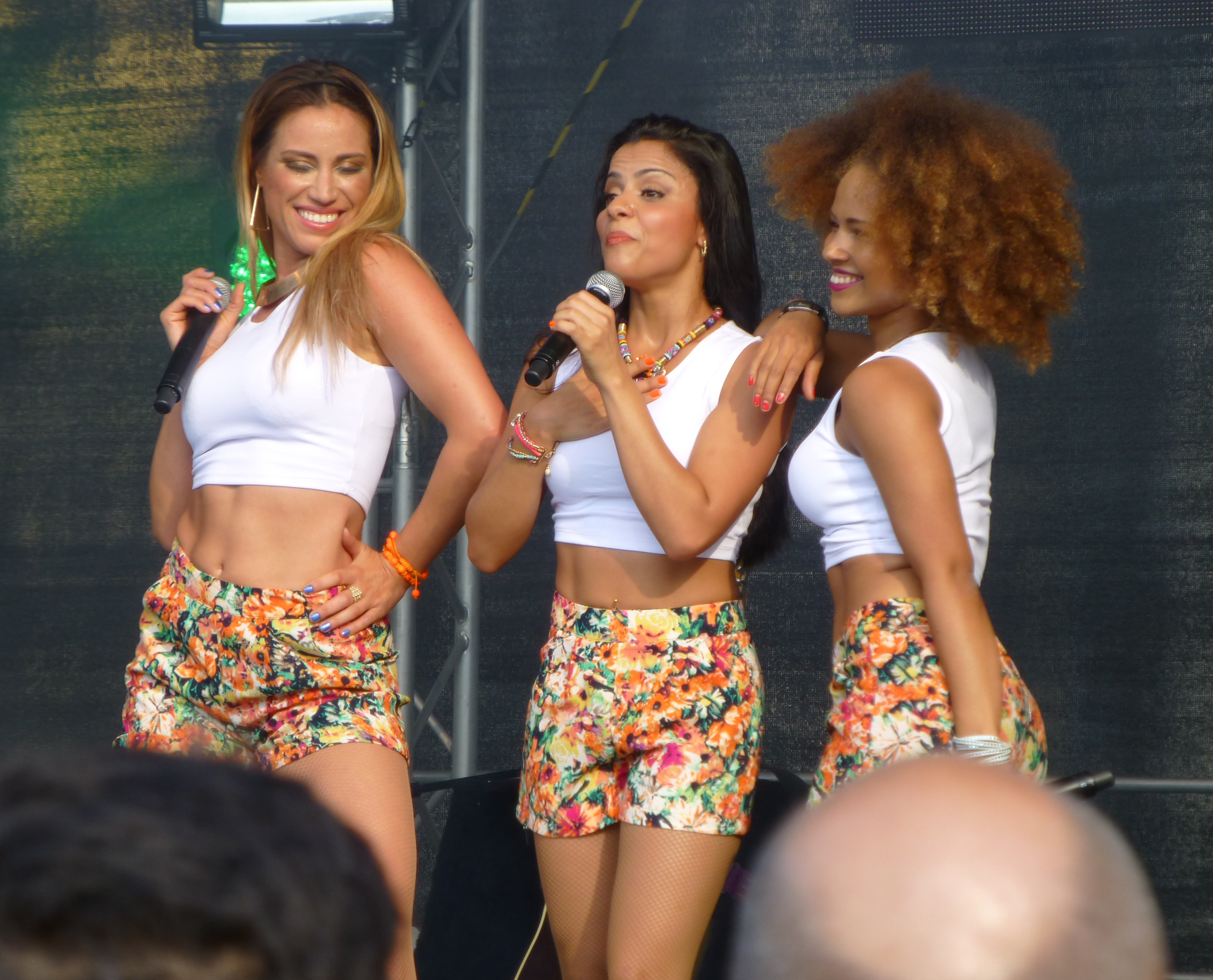 Bellini (Maria Efeldt, Tracey Ellis, Myrthes Monteiro) on the Radio Salü stage at the Saarspektakel 2014 in Saarbrücken